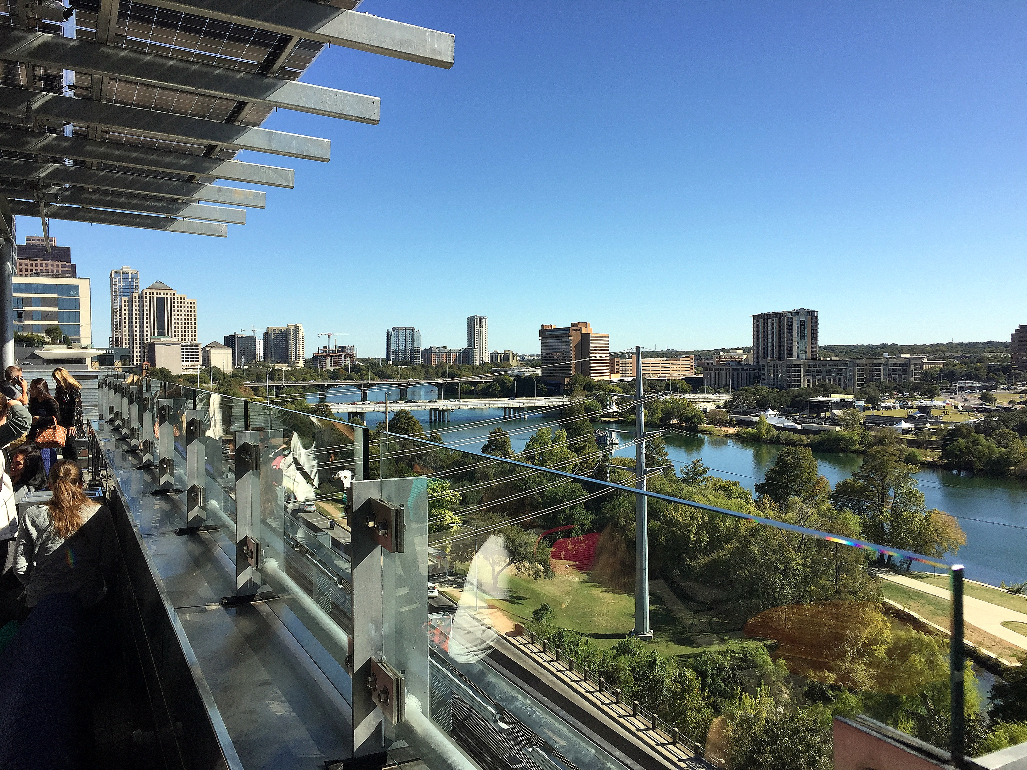 View of Colorado river from Austin, Texas central library rooftop garden.